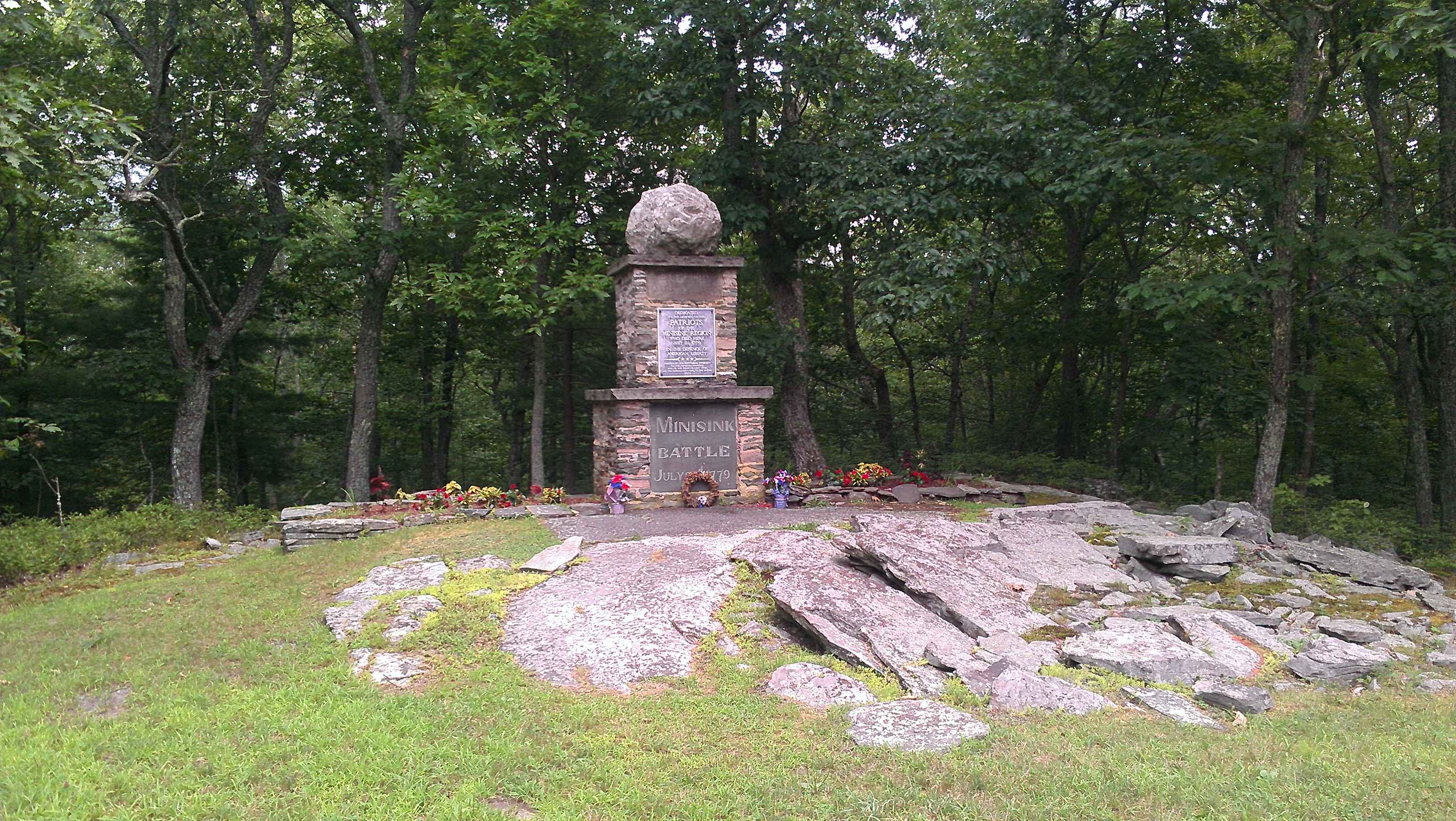 Monument at the Minisink Battleground County Park in Sullivan County, NY. The Battle of Minisink was fought in 1779 as part of the American Revolution.